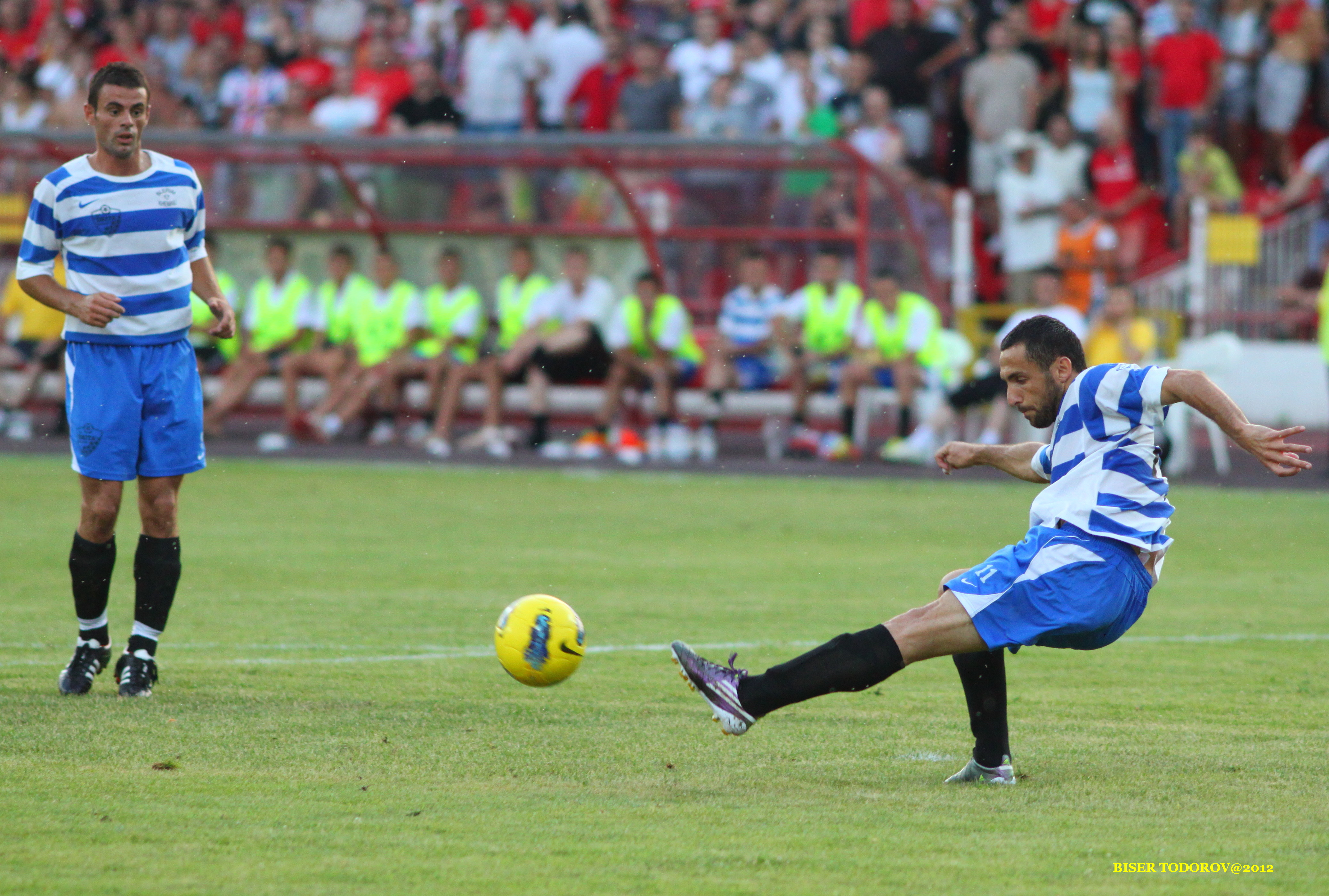 FC Drita's footballers clear the ball during the control with CSKA Sofia, July 14, 2012.